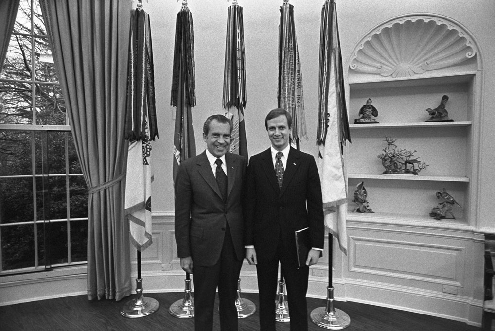 President Nixon poses for a photo opportunity with Staff Assistant Gordon C. Strachan in the Oval Office